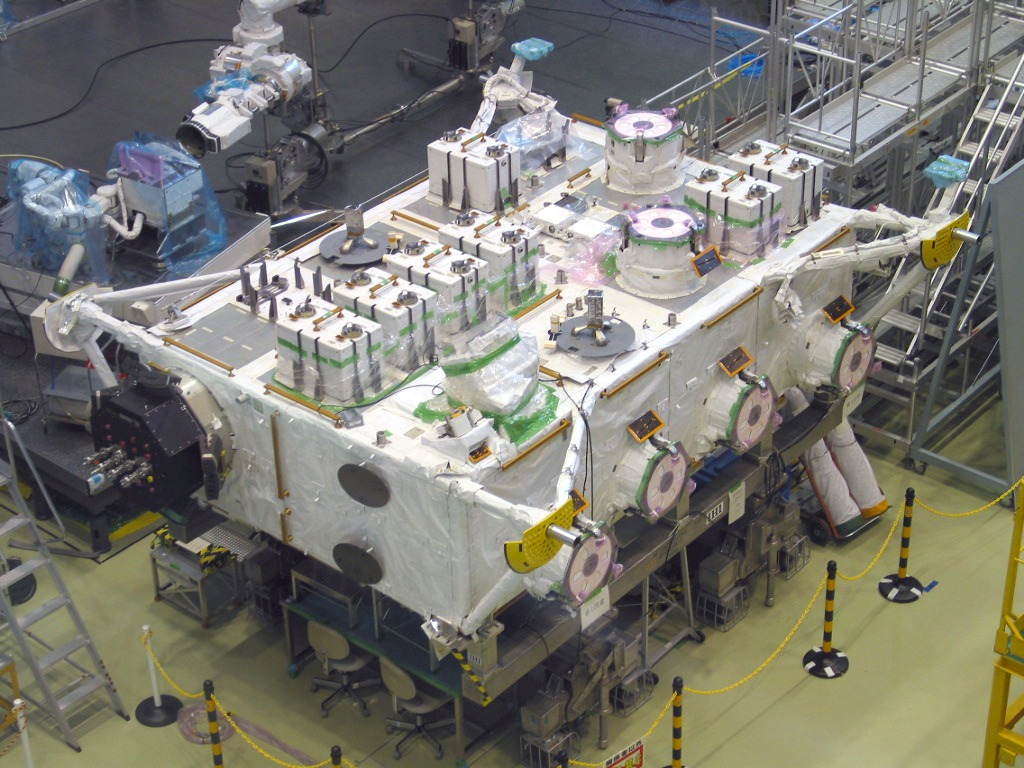 The Exposed Facility (EF) of the Japanese Experiment Module (JEM), Japan's primary contribution to the International Space Station (ISS), is shown in a processing facility. The EF is a unique platform on the ISS that is located outside of the Pressurized Module and is continuously exposed to the space environment. Items positioned on the exterior platform focus on Earth observation as well as communication, scientific, engineering and materials science experiments. Photo Credit: NASA